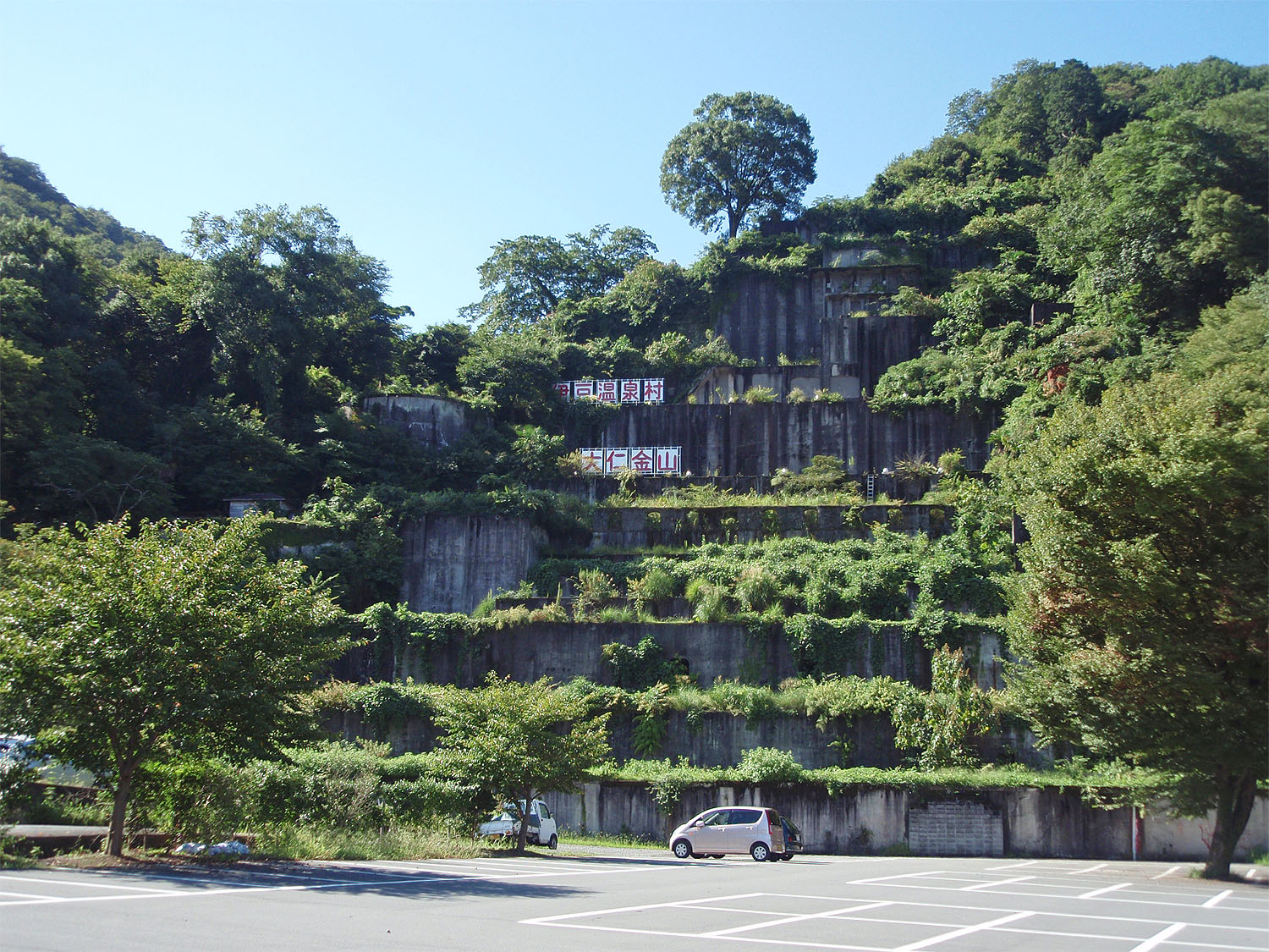 Site of the Ohito Mine in Izu, Shizuoka Prefecture, Japan.